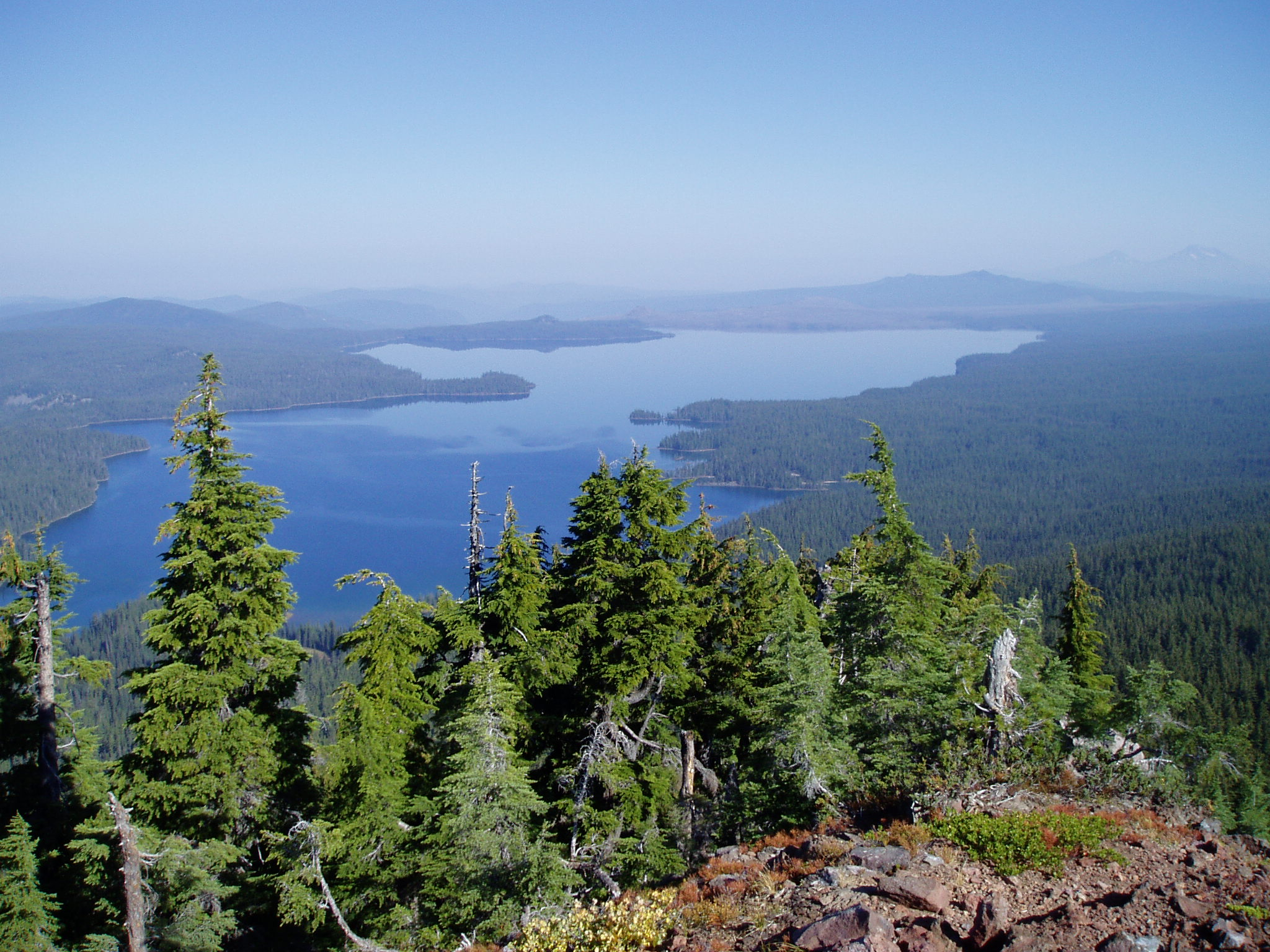 View north down to Waldo Lake in the Cascade Range in Lane County, Oregon, with mountain hemlock trees (Tsuga mertensiana) in the foreground and two of the Three Sisters faintly visible in the upper right through some haze